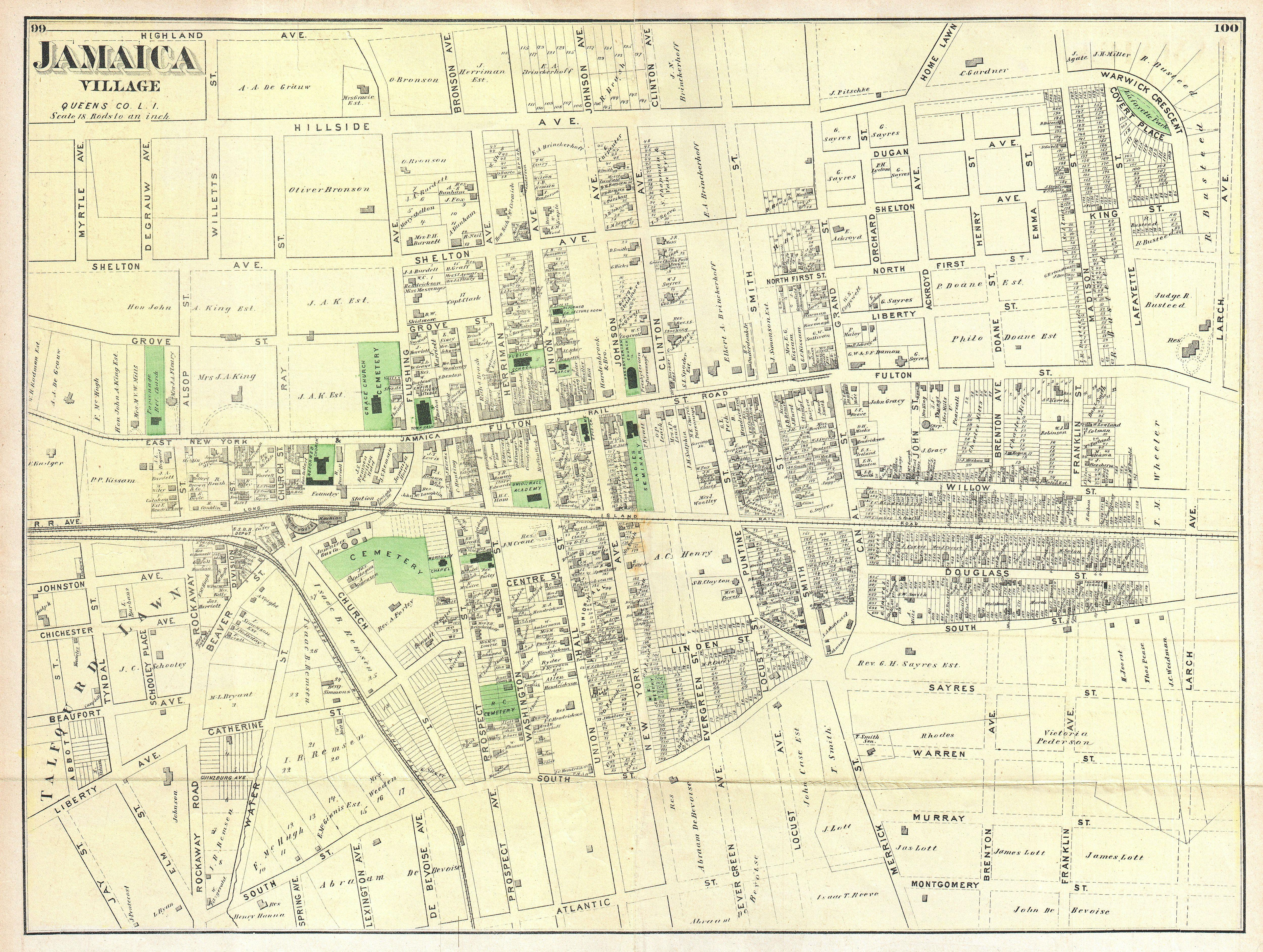 A scarce example of Frederick W. Beers’ map of the town of Jamaica Village, Queens, New York. Published in 1873. Covers roughly from modern day Highland Avenue to Atlantic Avenue, and from Myrtle Avenue to Franklin Avenue. Detailed to the level of individual buildings and properties with land owners noted. This is probably the finest atlas map of the town of Jamaica Queens, to appear in the 19th century. Prepared by Beers, Comstock & Cline out of their office at 36 Vesey Street, New York City, for inclusion in the first published atlas of Long Island, the 1873 issue of Atlas of Long Island, New York.